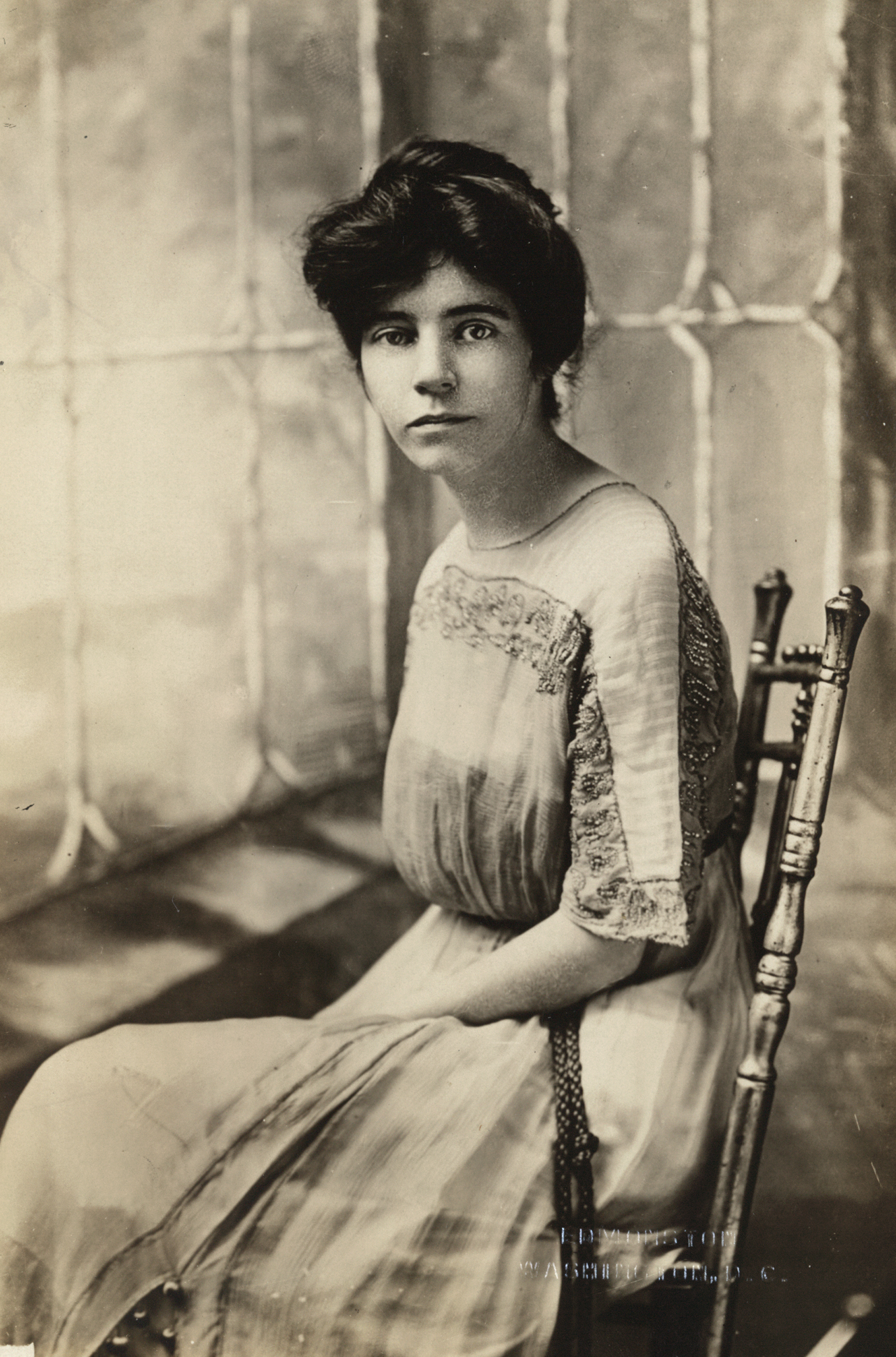 Studio portrait of Alice Paul in linen dress, seated in rocking chair, window background. Image printed in The Suffragist, 3, no. 52 (Dec. 25, 1915), 6. Captioned: "Miss Alice Paul." Print Photograph 4 x 6 inches.